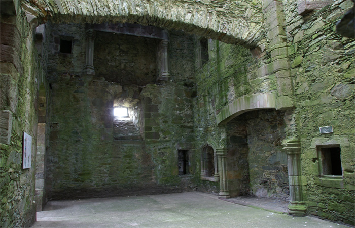 Cardoness Castle, Dumfries and Galloway, Scotland - great hall